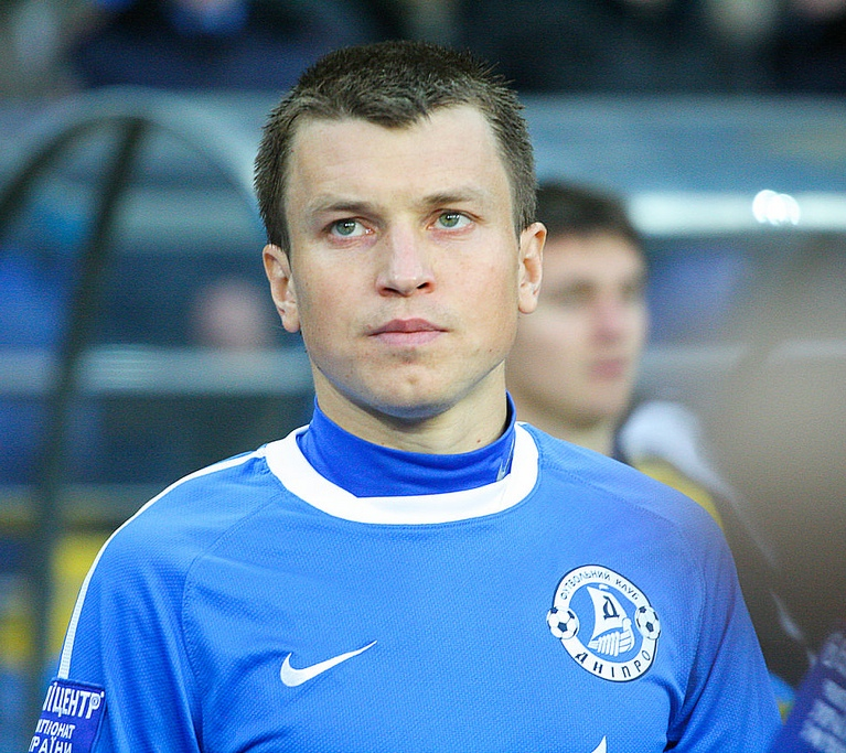 Ruslan Rotan